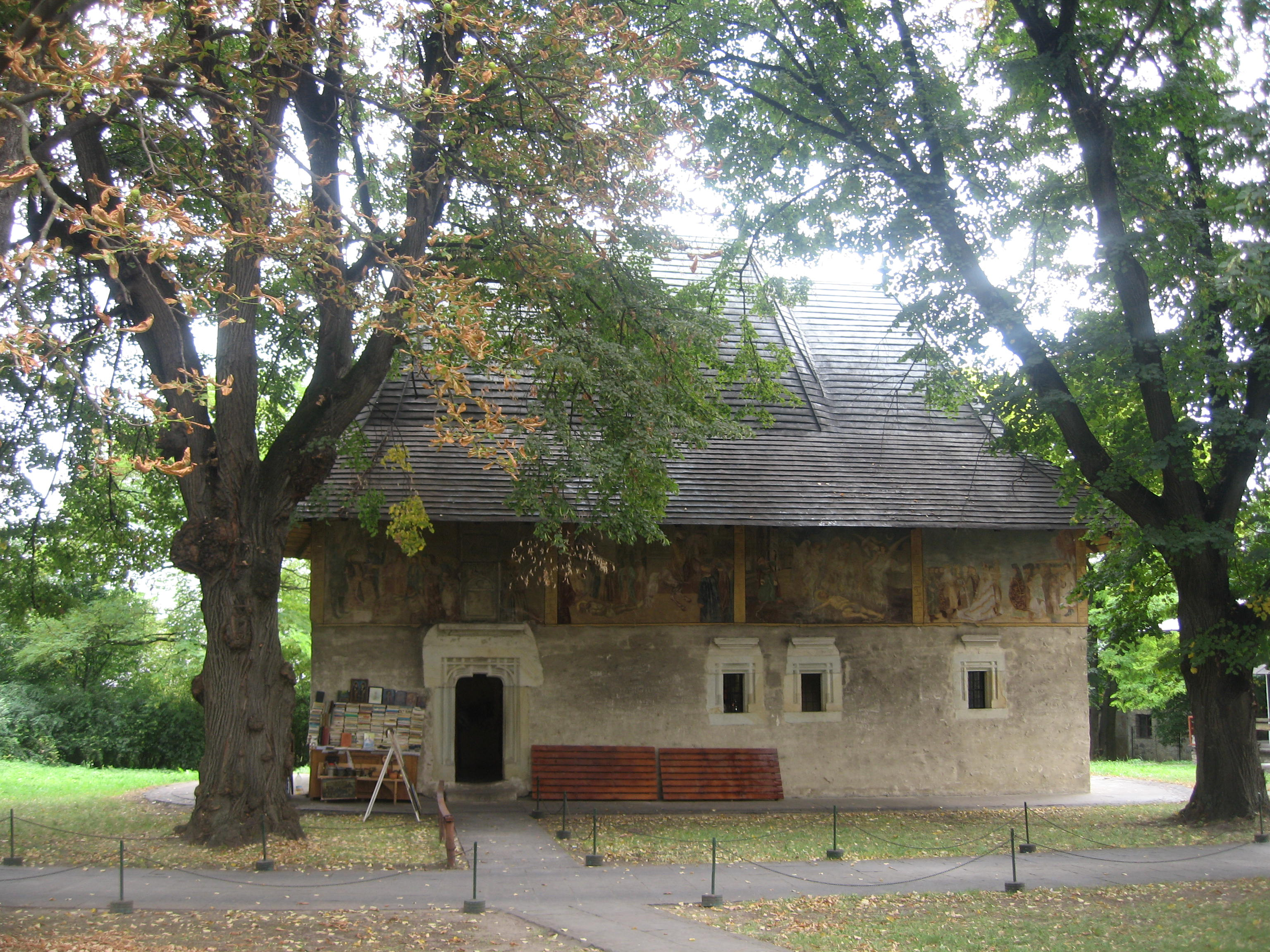 St. John the New Monastery in Suceava - Clisiarniţa.